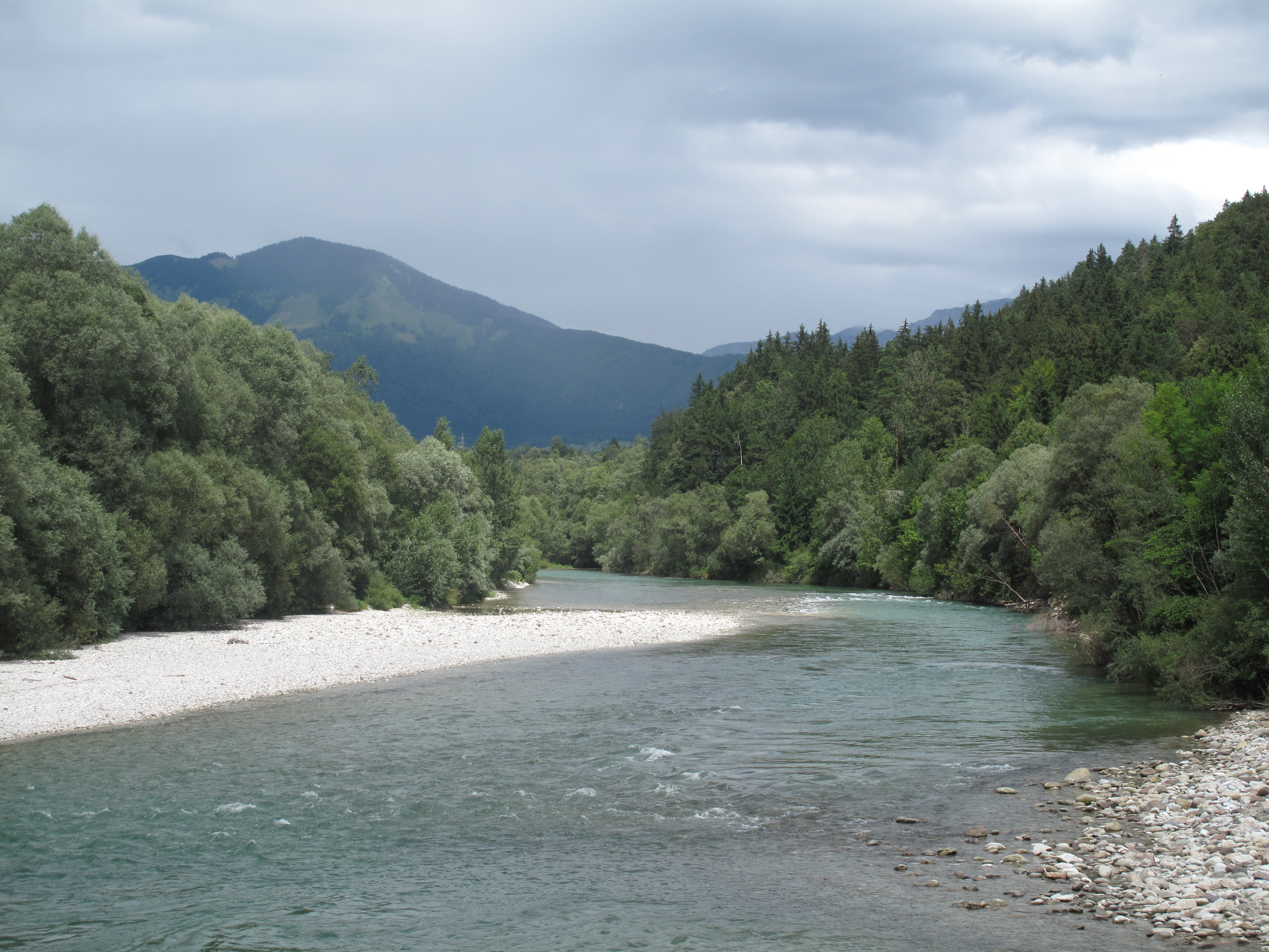 between Gobovce and Podnart, river